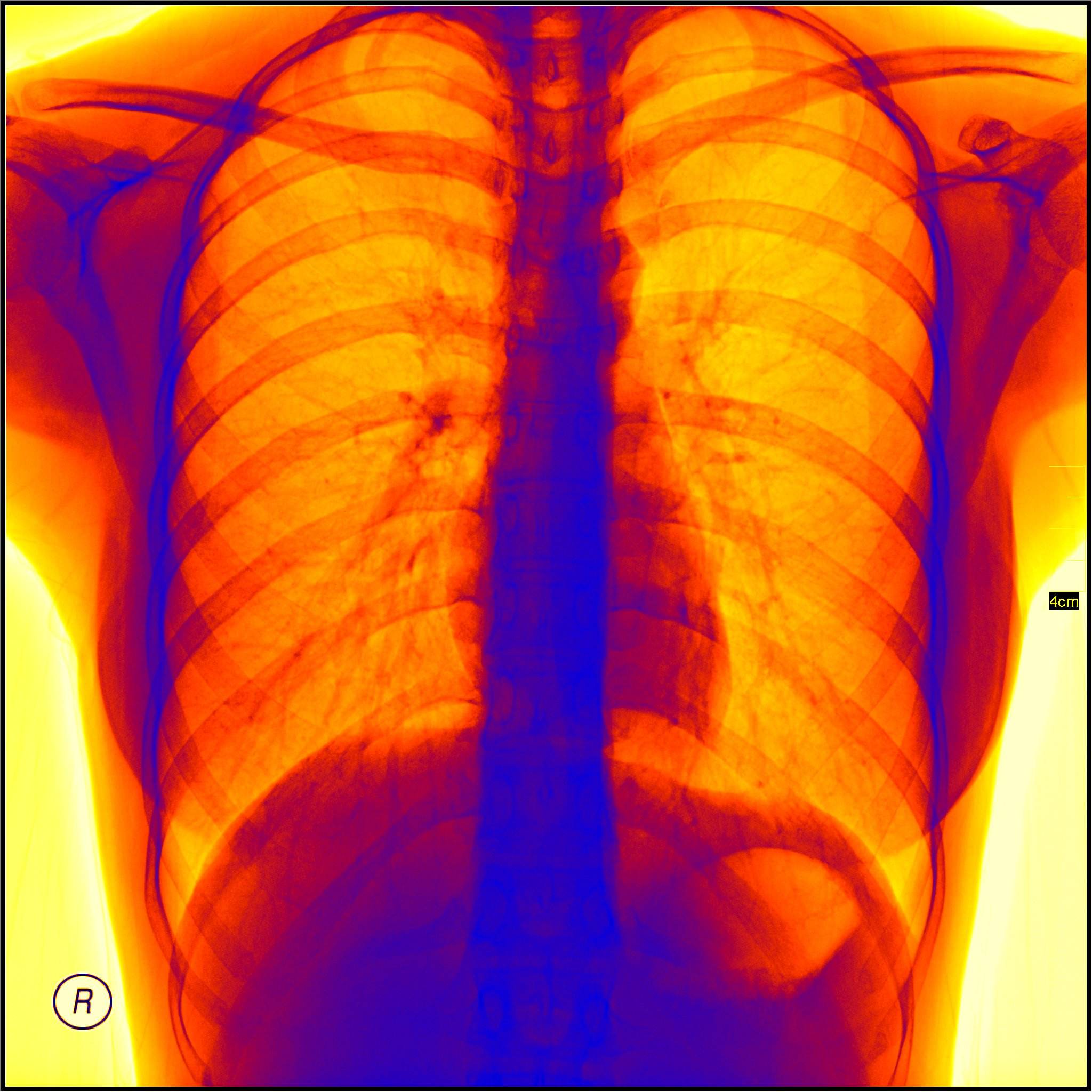 Medical X-rays.